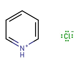 The chemical structure of pyridinium chloride